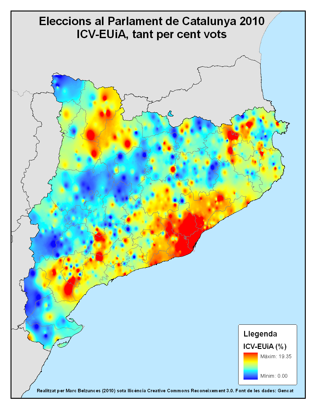 Distribution of ICV-EUiA vote in elections to the Parliament of Catalonia 2010.